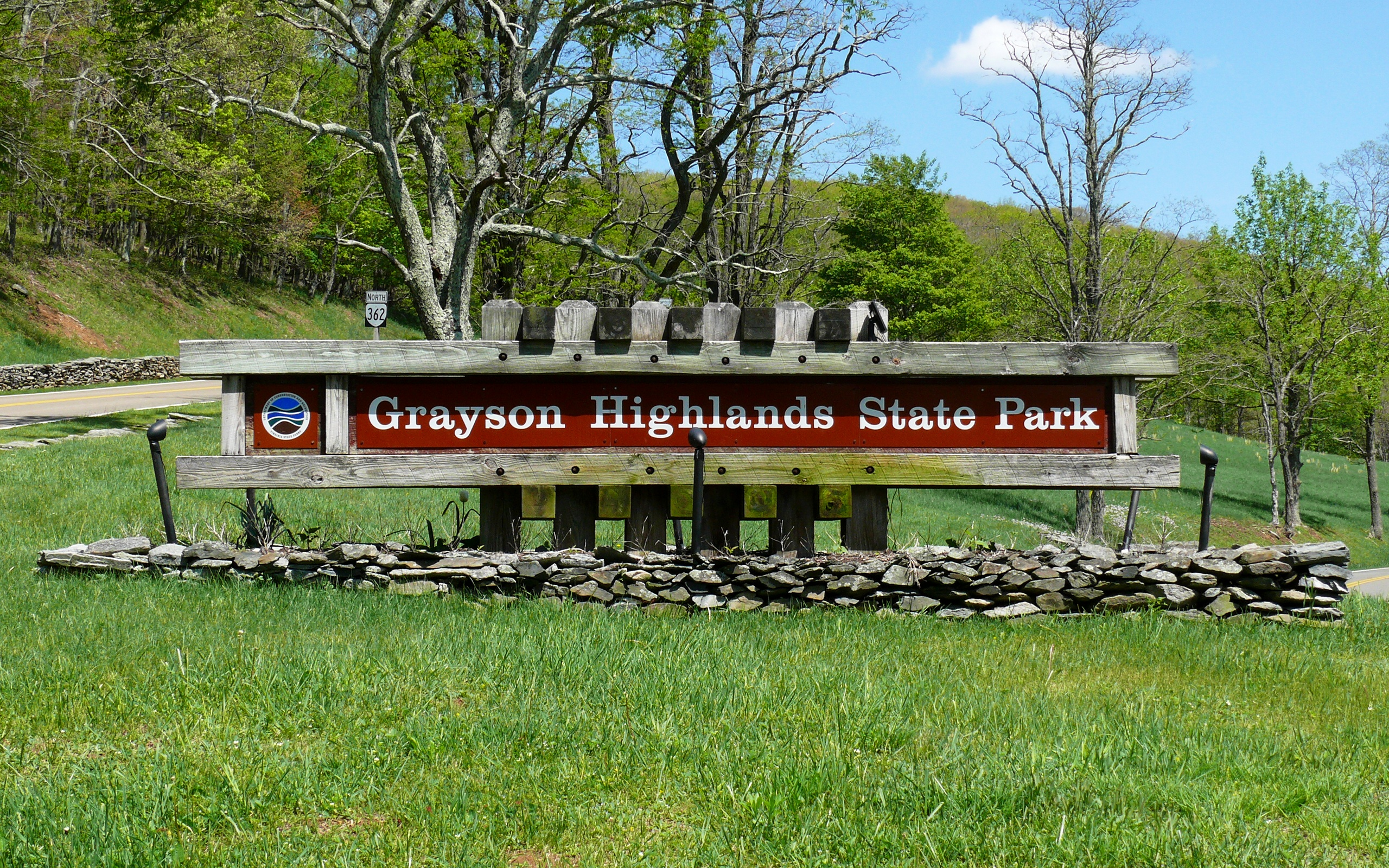 Welcome sign at the entrance to Grayson Highlands State Park. Photo taken with a Panasonic Lumix DMC-FZ50 in Grayson County, VA, USA. Cropping and post-processing performed with The GIMP.